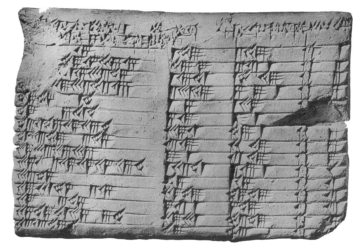 Plimpton 322, Babylonian tablet listing pythagorean triples